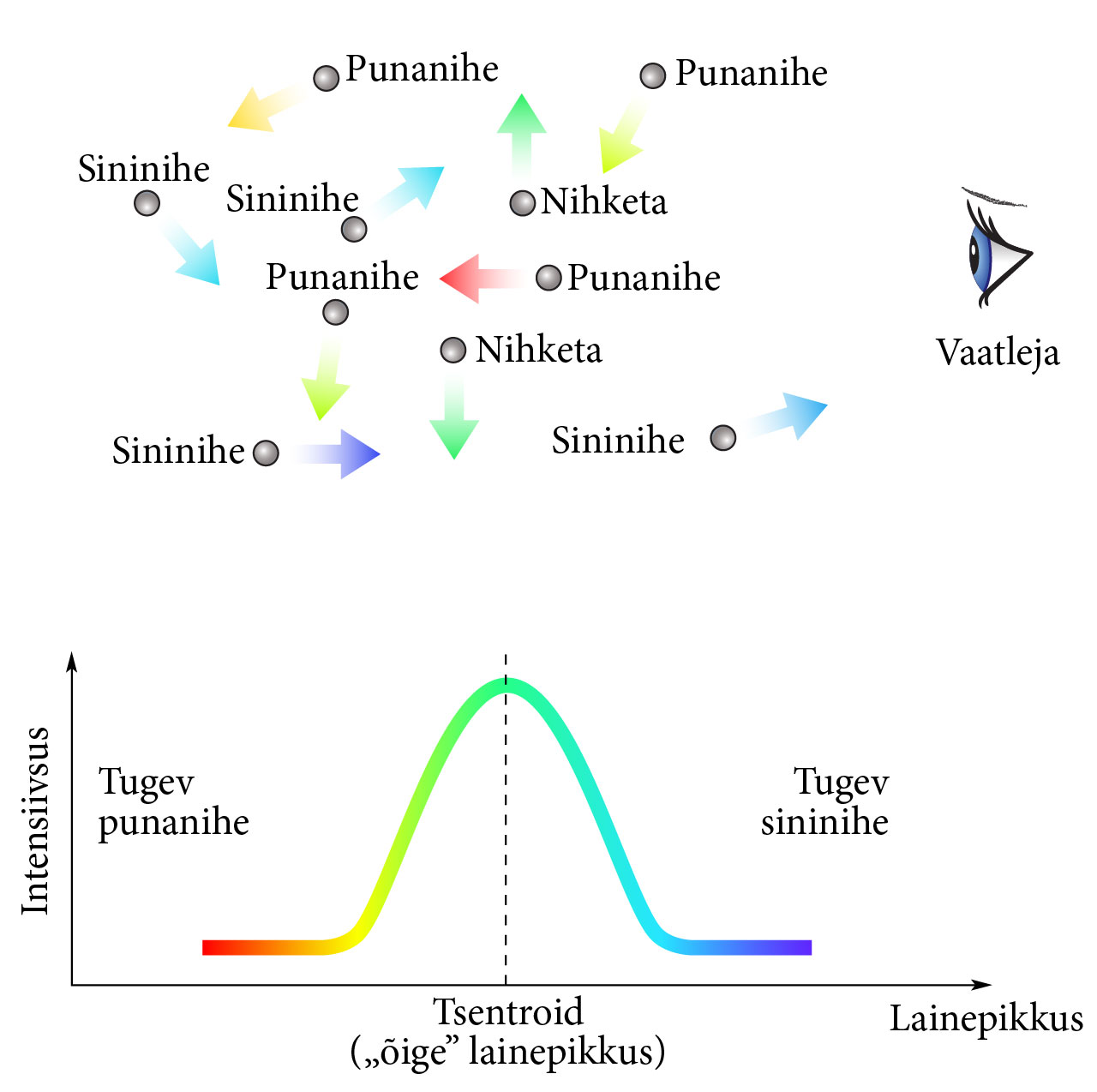 Redshift and blueshift in estonian